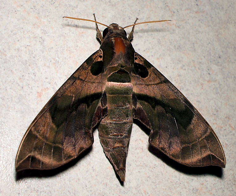 From my trip to Thailand - May 28th - 4th June 2011, most moths were found at the various temples which had metal hallide bulbs fitted to them. The ones labelled 'Hang Dong' came to my 22w Actinic light. Please feel free to help aid identification or correct my proposed identifications.